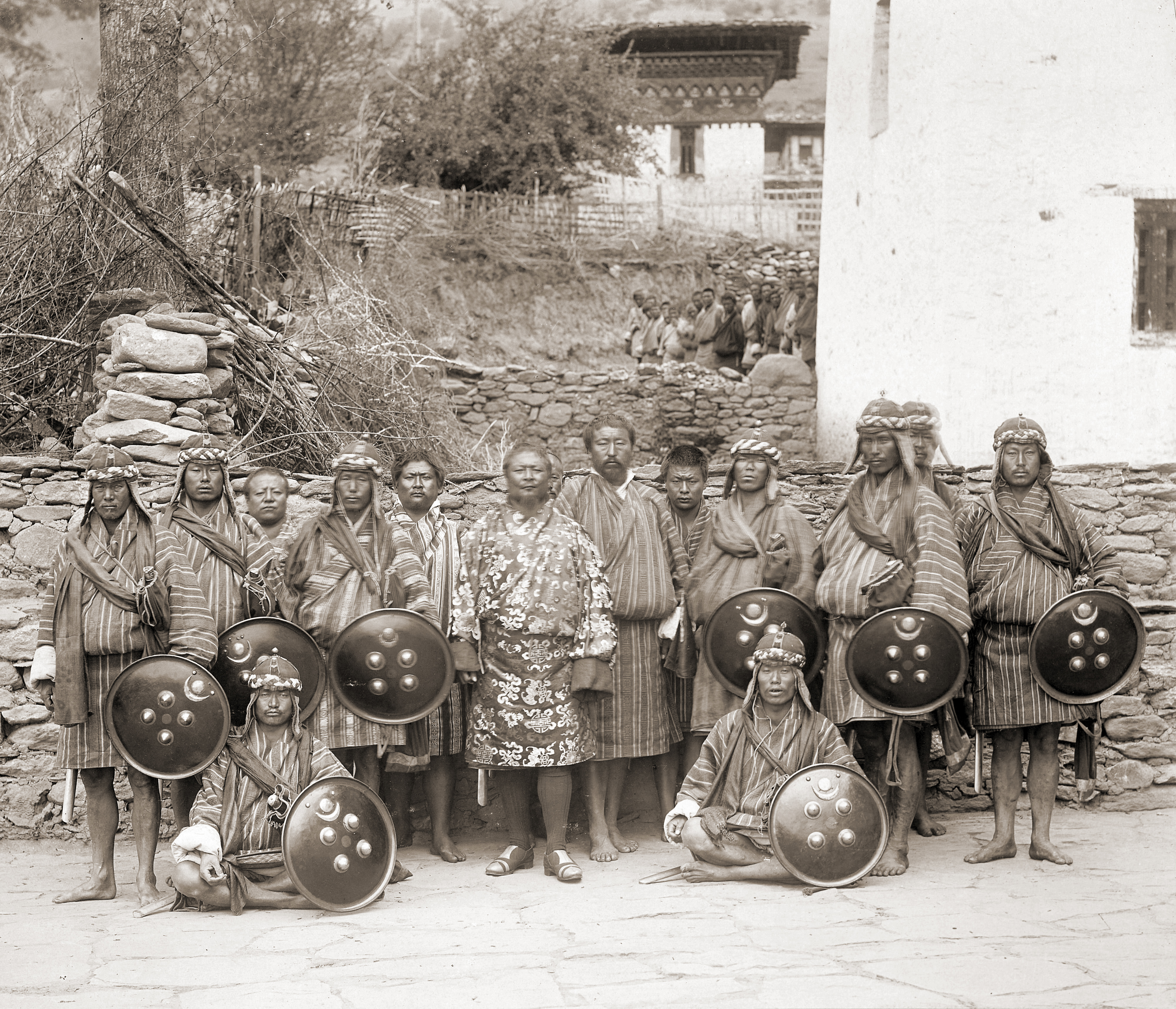 Sir Ugyen Wangchuck, with his bodyguards — at Tongsa Dzong in Bhutan, 1905. He became the first King of Bhutan in 1907.